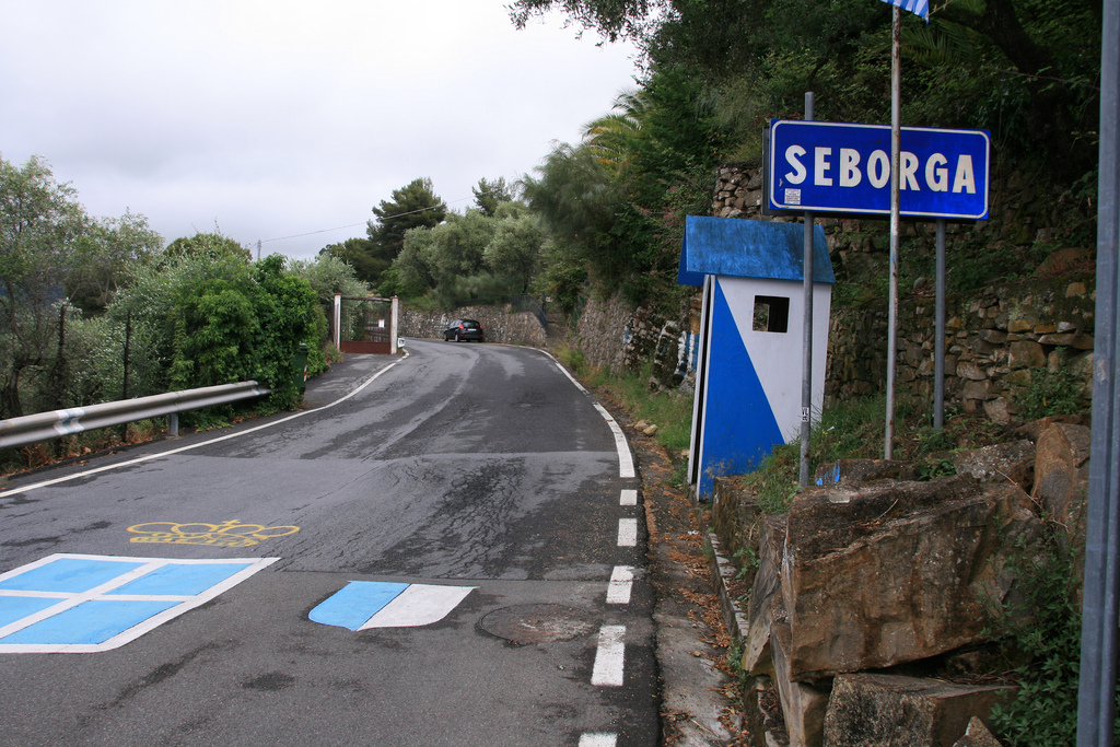 The putative frontier of the self-styled Principality of Seborga with the Republic of Italy.